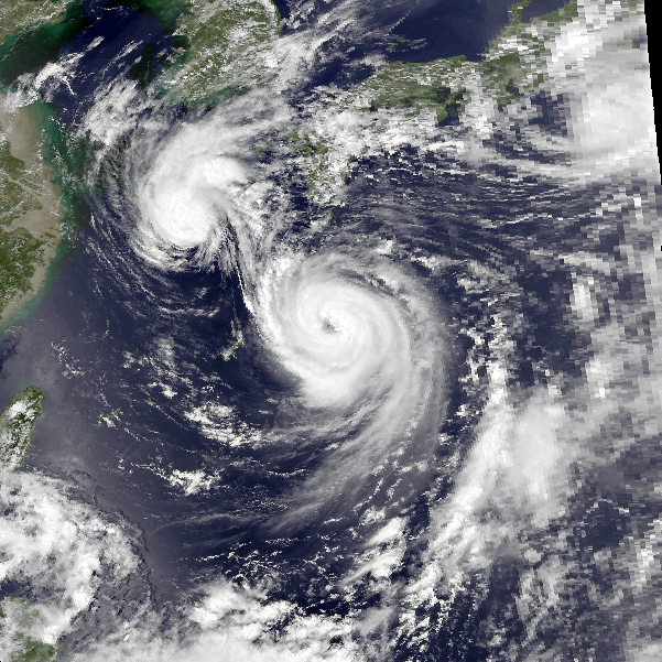 Typhoon Pat on August 30, 1985. At the time Pat had winds of 85.5 knts (98.5 mph, 158.5 kph), 1-min sustained, and a pressure of 965 mbar. Pat was about 104 miles away from land and 14 hours away from landfall. This image was taken by the NOAA-9 Satellite.